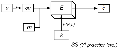 Steganography: the Third Protection Level Security Scheme